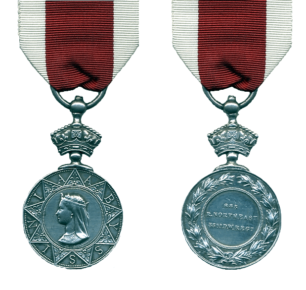 Scanned images of Face and obverse side of the 1868 Abyssinian Campaign Medal. Created from a medal in my private collection